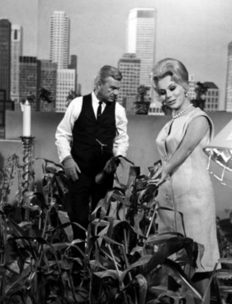 Publicity photo from the premiere of the television program Green Acres. Pictured are Eddie Albert and Eva Gabor.